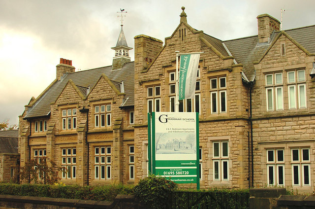 The Old Grammar School, Ormskirk Now being converted into apartments.